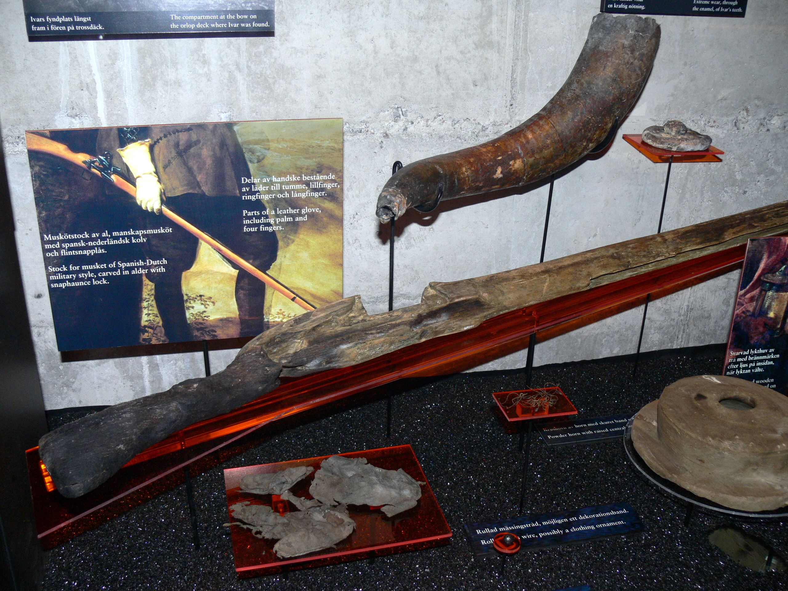 Vasa Museum. Musket equipment.